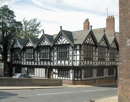 Stanley Palace Stanley Palace is situated in the south west corner of the grid square in the lower part of Watergate Street.